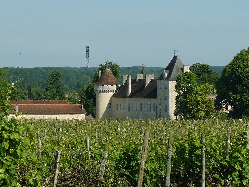 Oisellerie castle at St-Michel (Charente, France)